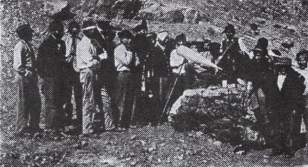 Navajo Indians recording songs for Geoffrey O'Hara on wax cylinders, 1913